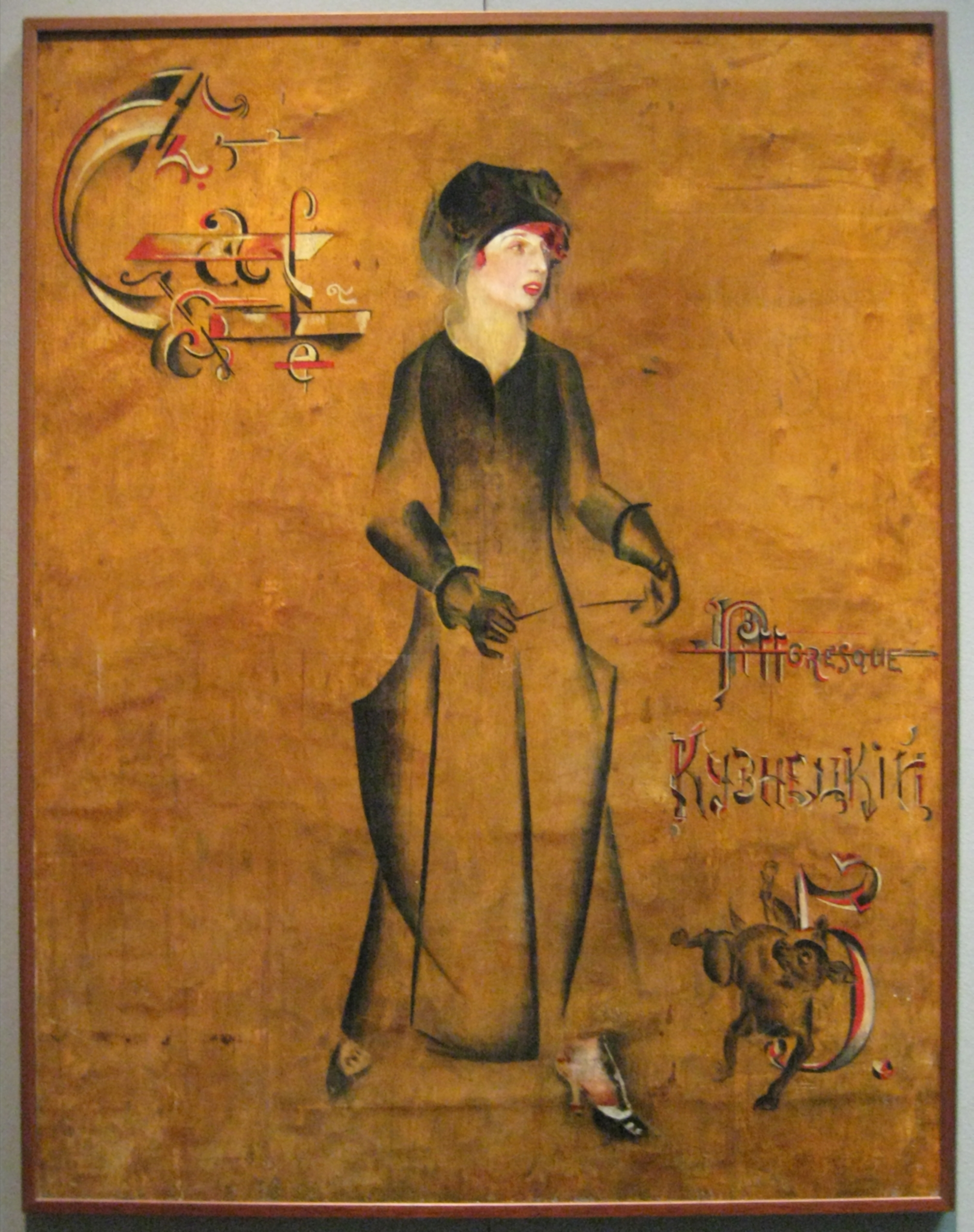 Georgi Bogdanovich Yakulov, Cafe Pittoresk, National Gallery of Armenia, Yerevan